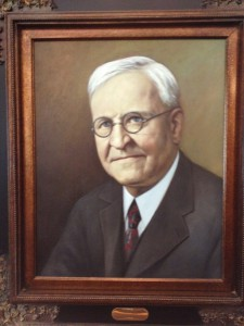 This is a photo at the Ropp Center of LA Tech President C. E. Byrd, who left the position in 1907.